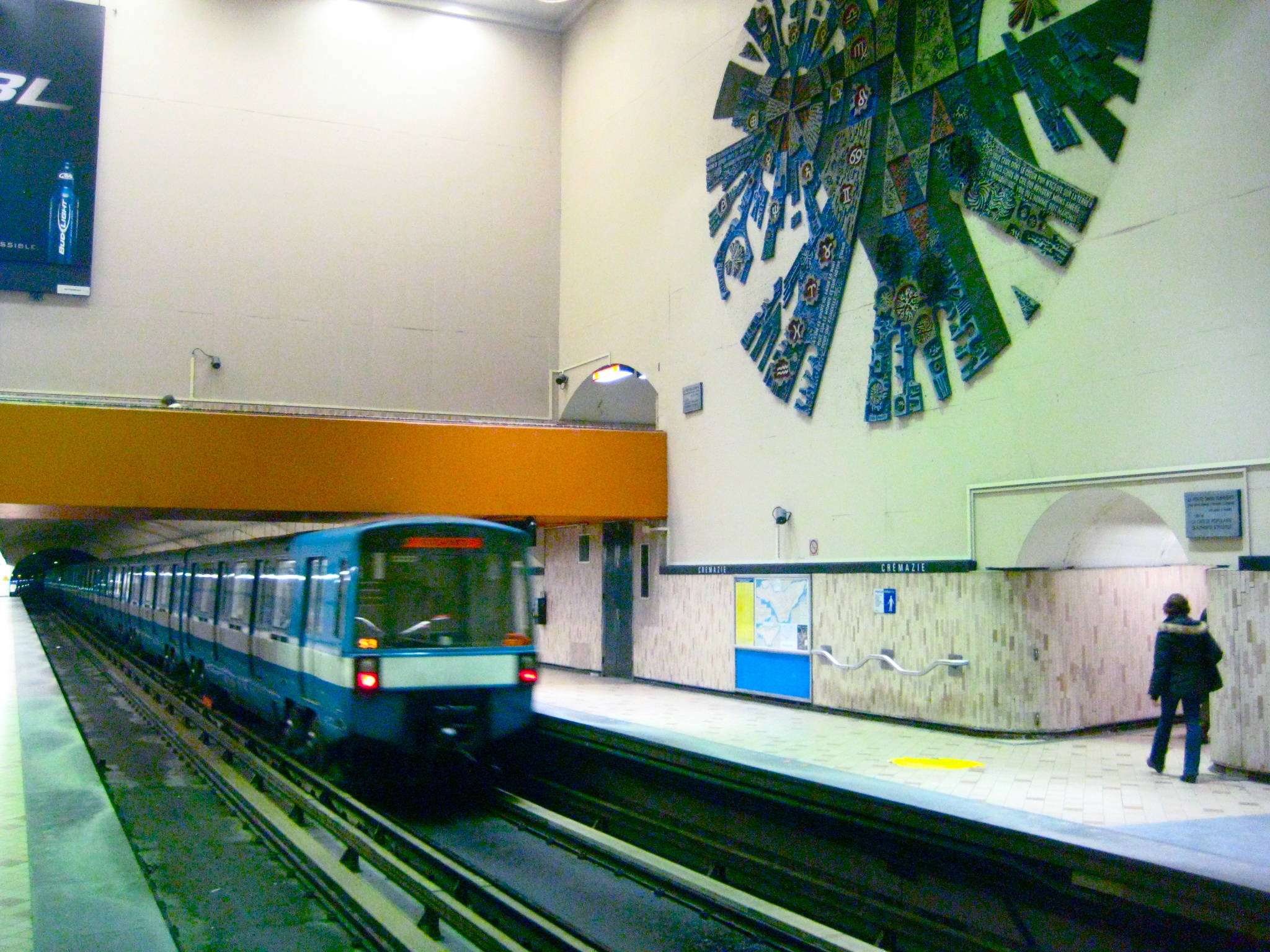 Crémazie Metro station platform